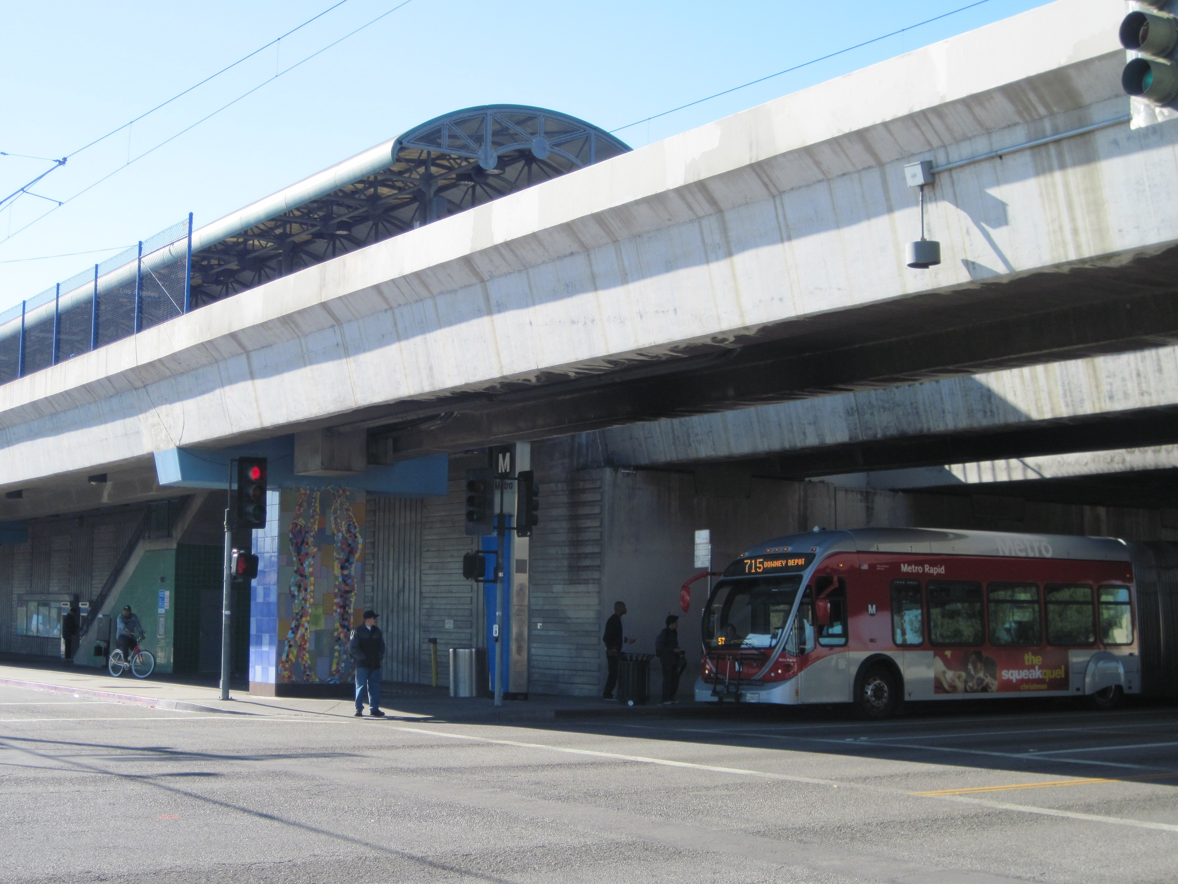 The Los Angeles County Metropolitan Transportation Authority's Firestone station, serving the Metro Blue Line in Los Angeles, California, USA.